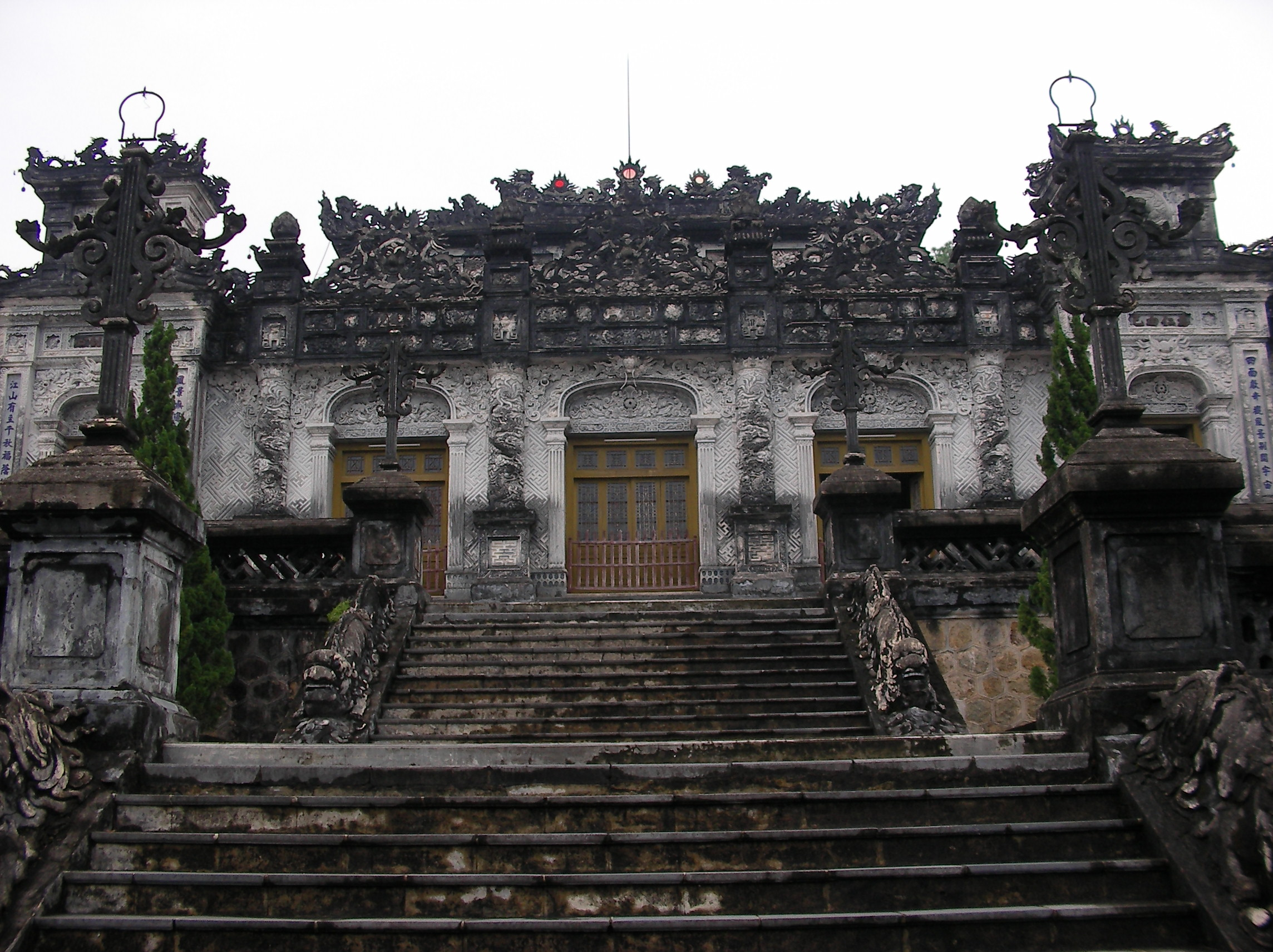 Photographs of the Khai Dinh mausoleum. Khai Dinh was the 12th Nguyen Dinasty emperor.